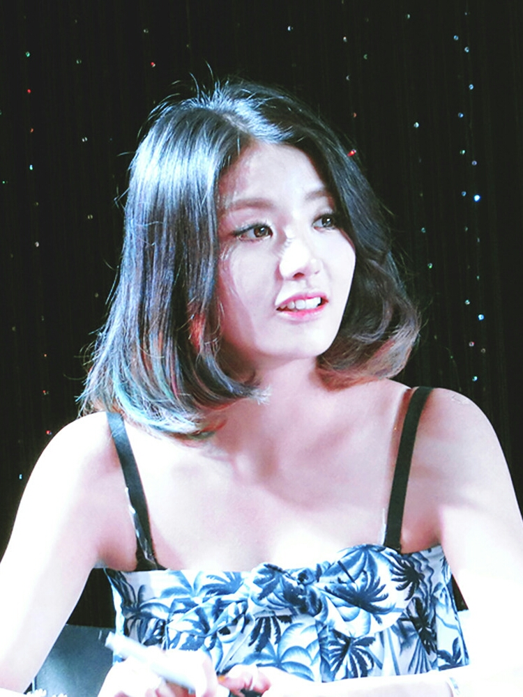 EunB in August 16, 2014